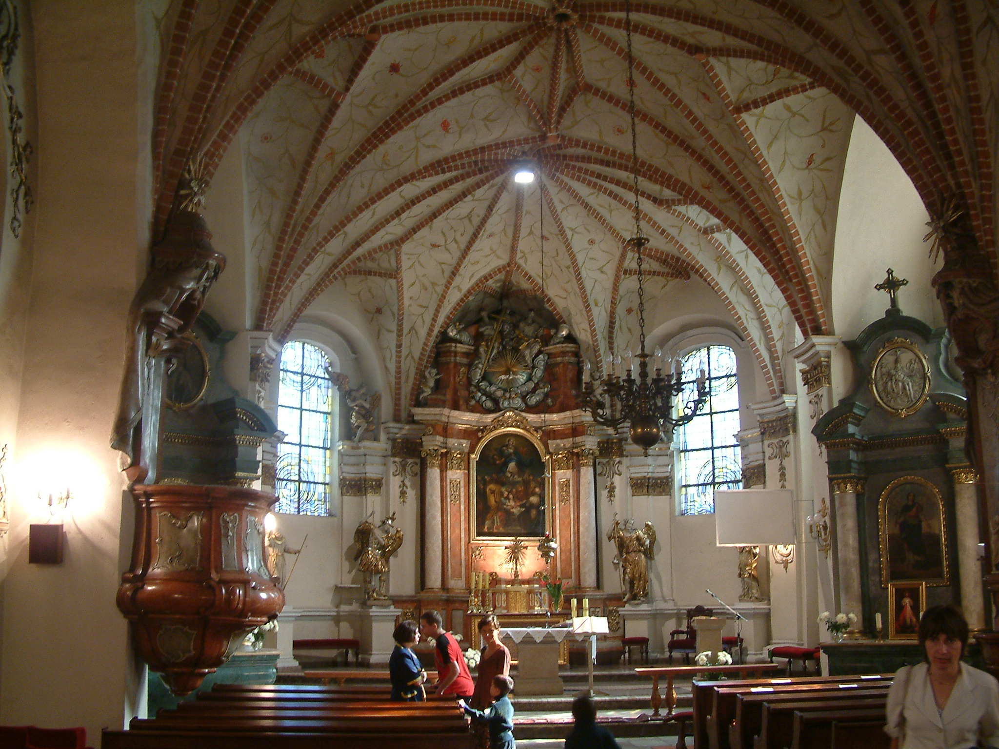 inside of St. Margaret's Churchin Poznań